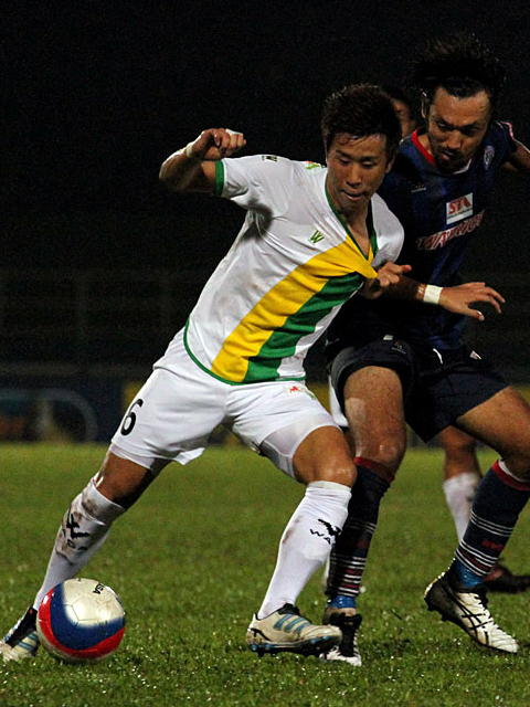 Atsushi Shimono turning out for Woodlands Wellington in a pre-season friendly against Darul Takzim FC on 26th December 2012.